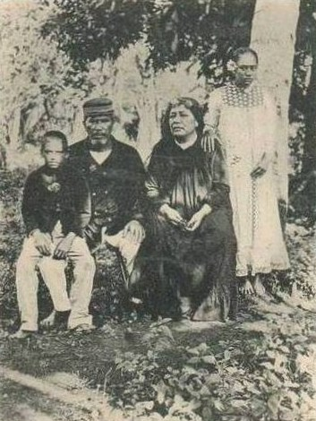 Raiatea - The Chief Teraupoo. Left to right: his son, Teraupoo, his wife and his daughter. See O'Reilly, Patrick (March 1972) Notes preliminaires a une histoire de la carte postale a Tahiti, Papeete: Société des Études Océaniennes, pp. 112–114 OCLC: 25670073. O'Reilly, Patrick (1975) Tahiti au temps des cartes postales, Paris: Nouvelles Editions Latines, p. 105 ISBN: 978-2-7233-1730-6. OCLC: 2348142.